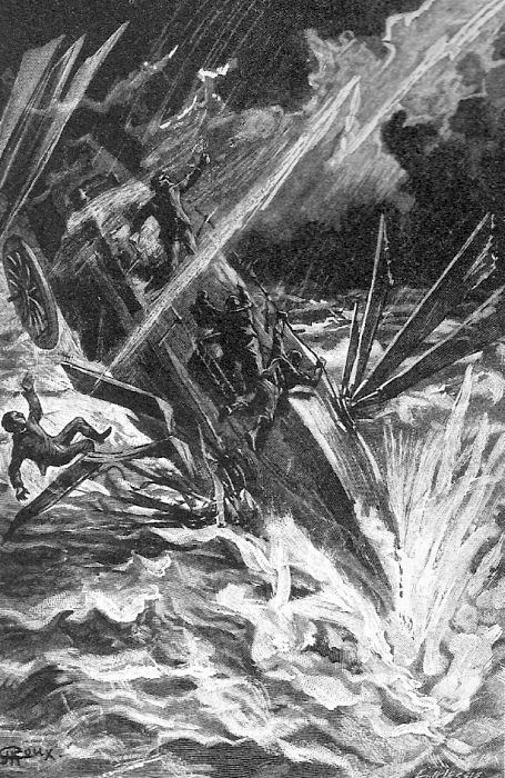 An illustration from Jules Verne's novel "Master of the World" (1902-03) drawn by George Roux.